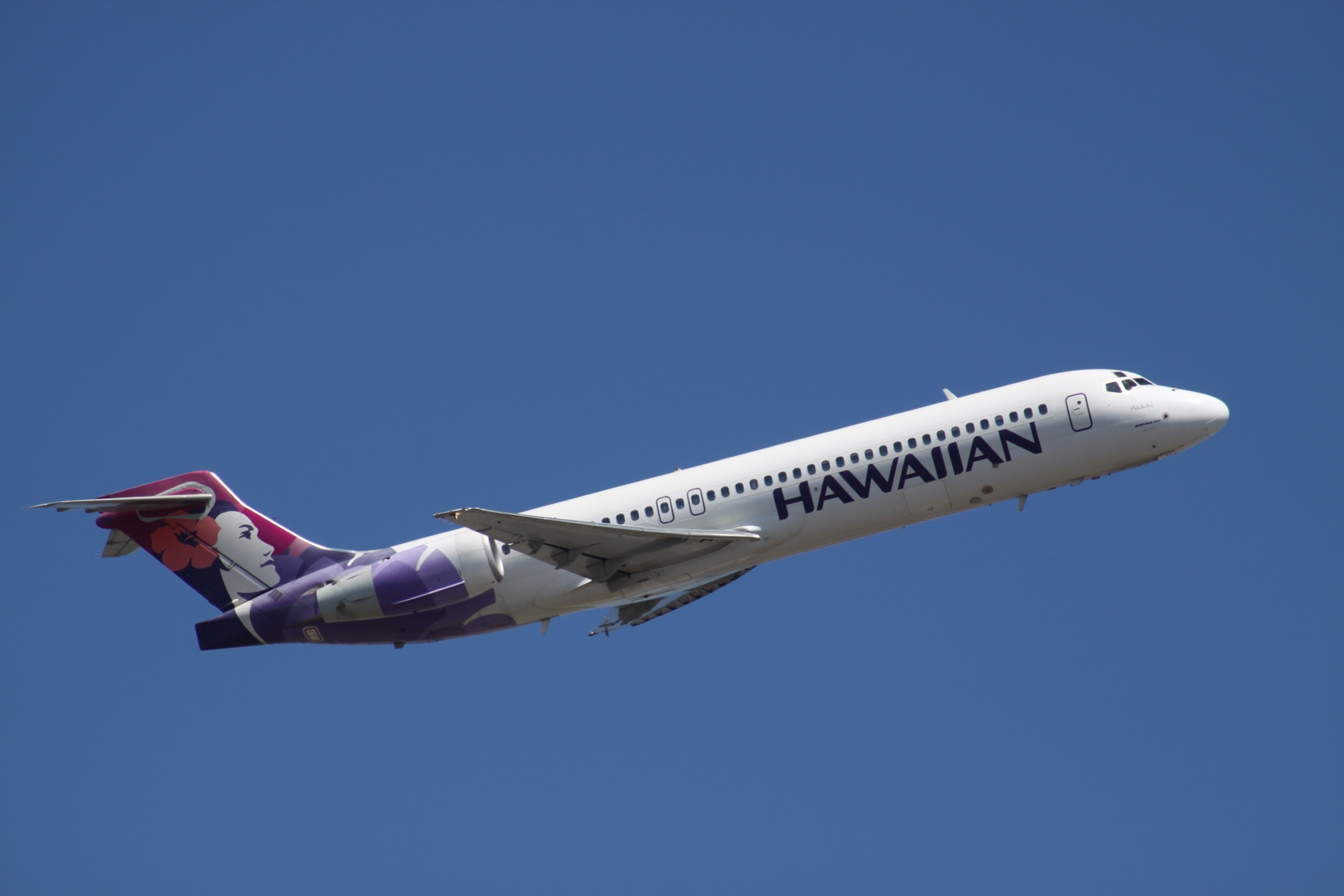 At Honolulu International